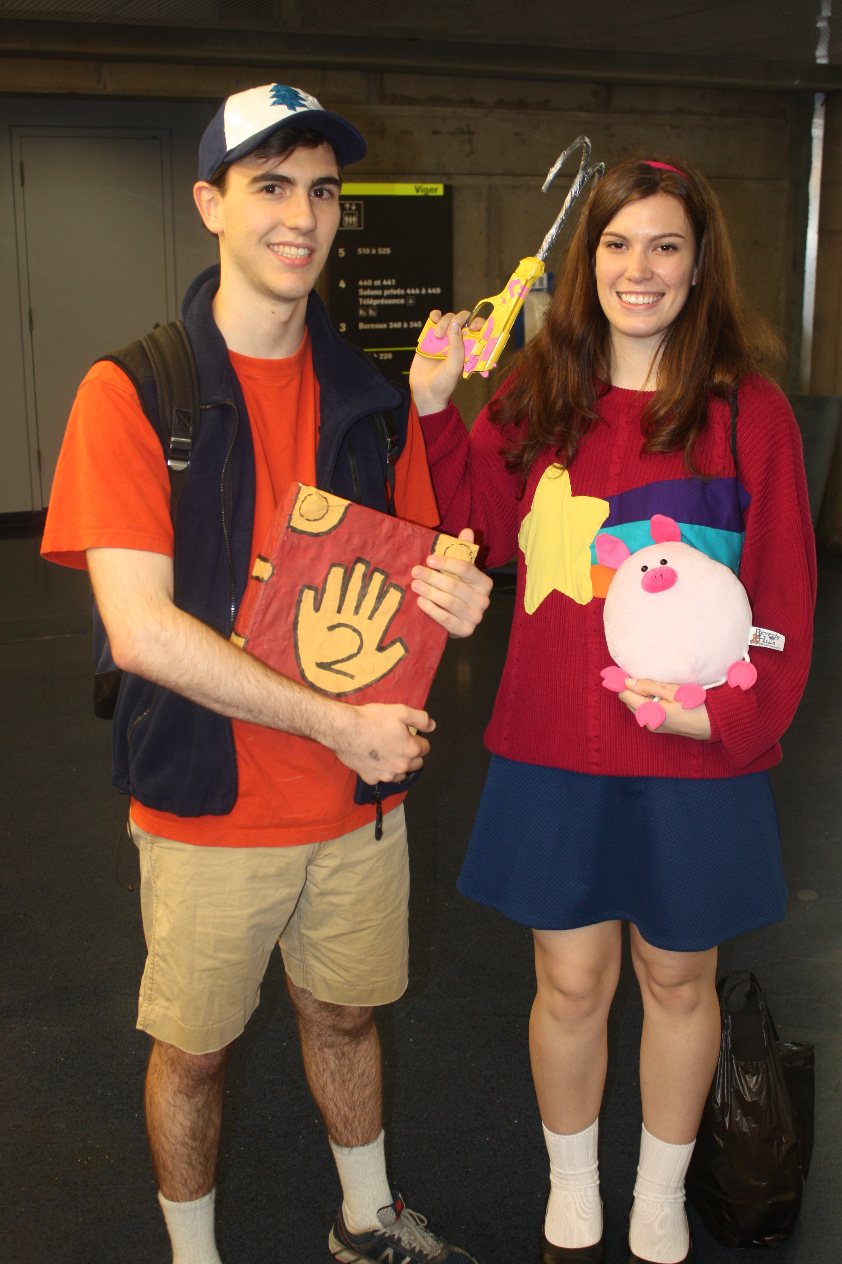 Cosplay on day three of Montreal Comiccon 2015.